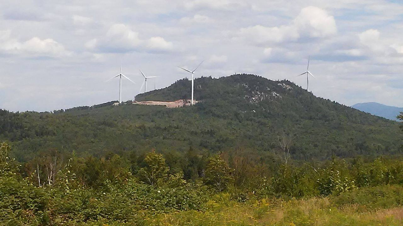 Jericho Mountain, also known as "Black Mountain," in Berlin, N.H. (My own photo, I let out to the public)